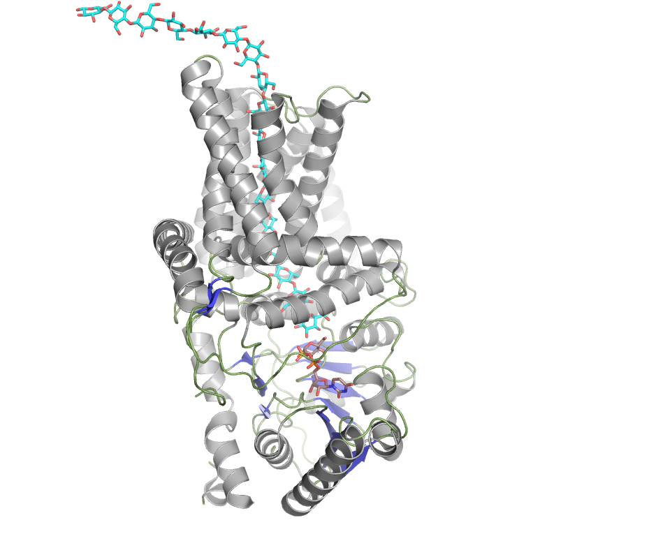 Crystal structure of cellulose synthase from Rhodobacter sphaeroides. Regulatory PilZ domain and B subunit (unique to bacteria) omitted to emphasize structural features likely conserved with plant cellulose synthases. Image generated with PyMOL from coordinates: PDB ID 5EIY.